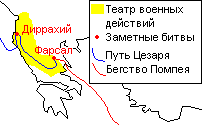 Caesar's campaign in Greece.